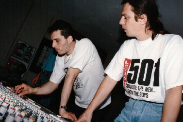 Real McCoy producers Frank Hassas and Juergen Wind in Studio